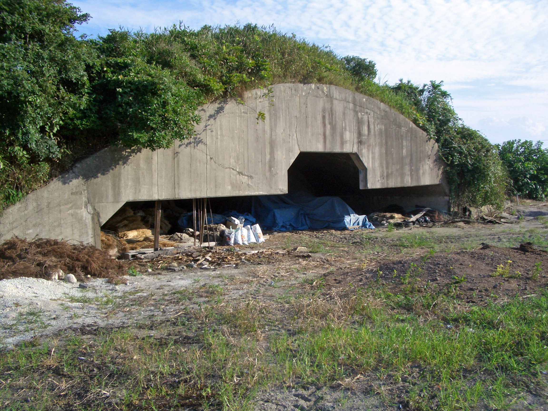 Bunker near *Miho-Yonago Airport made in the times of World War II.